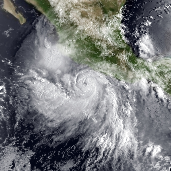 Image of Hurricane Lidia of the 1993 Pacific hurricane season on September 10, 1993.